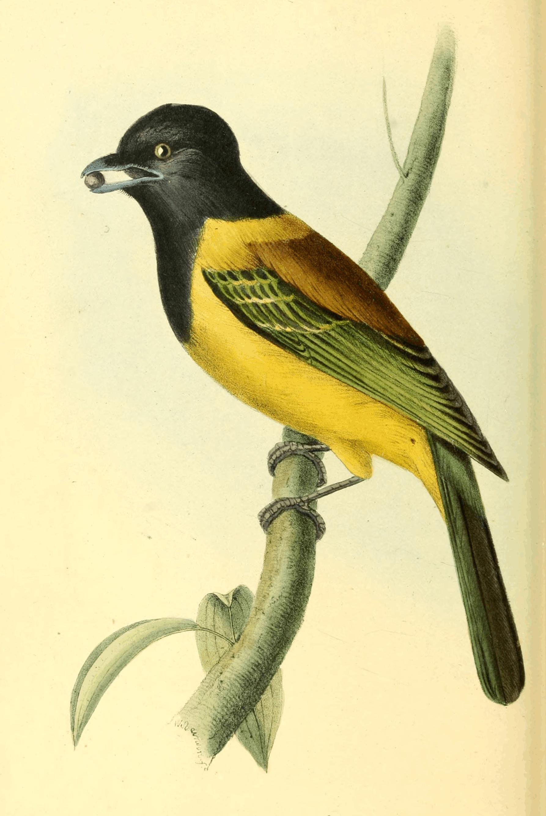 Plate 37. Procnias cucullata. Hooded Berry-eater. Modern accepted name (2012) is Carpornis cucullata.